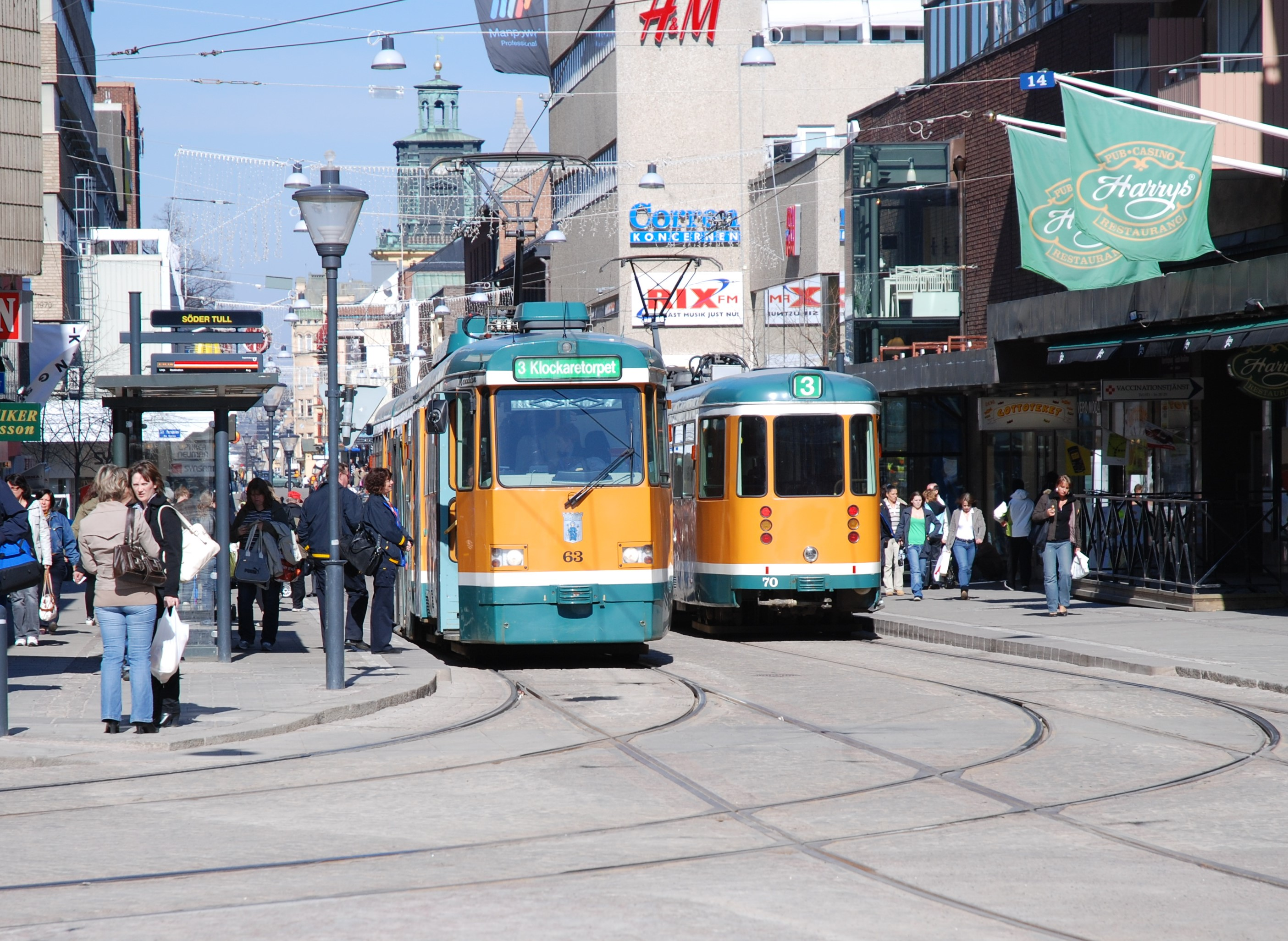 Trams Duwag GT8 at Drottninggatan/Nygatan in Norrrköping, Sweden, April, 2007